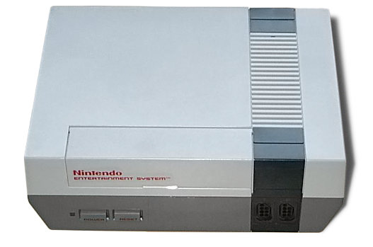 Picture of an US-American Nintendo Entertainment System.